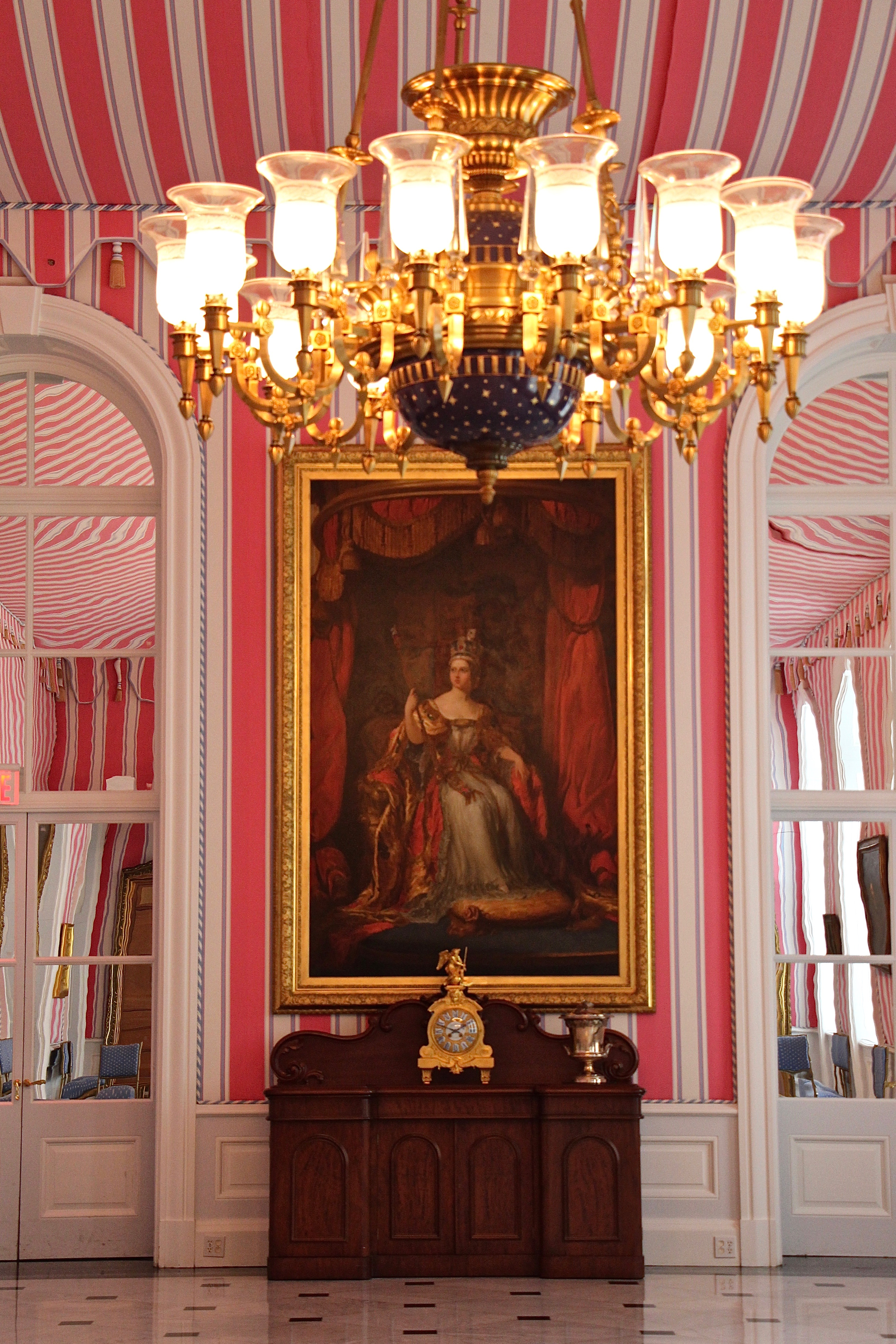 Tent Room, Rideau Hall, 1 Sussex Drive, Ottawa, ON K1A 0A1.